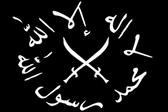 Hizbul Islam Flag